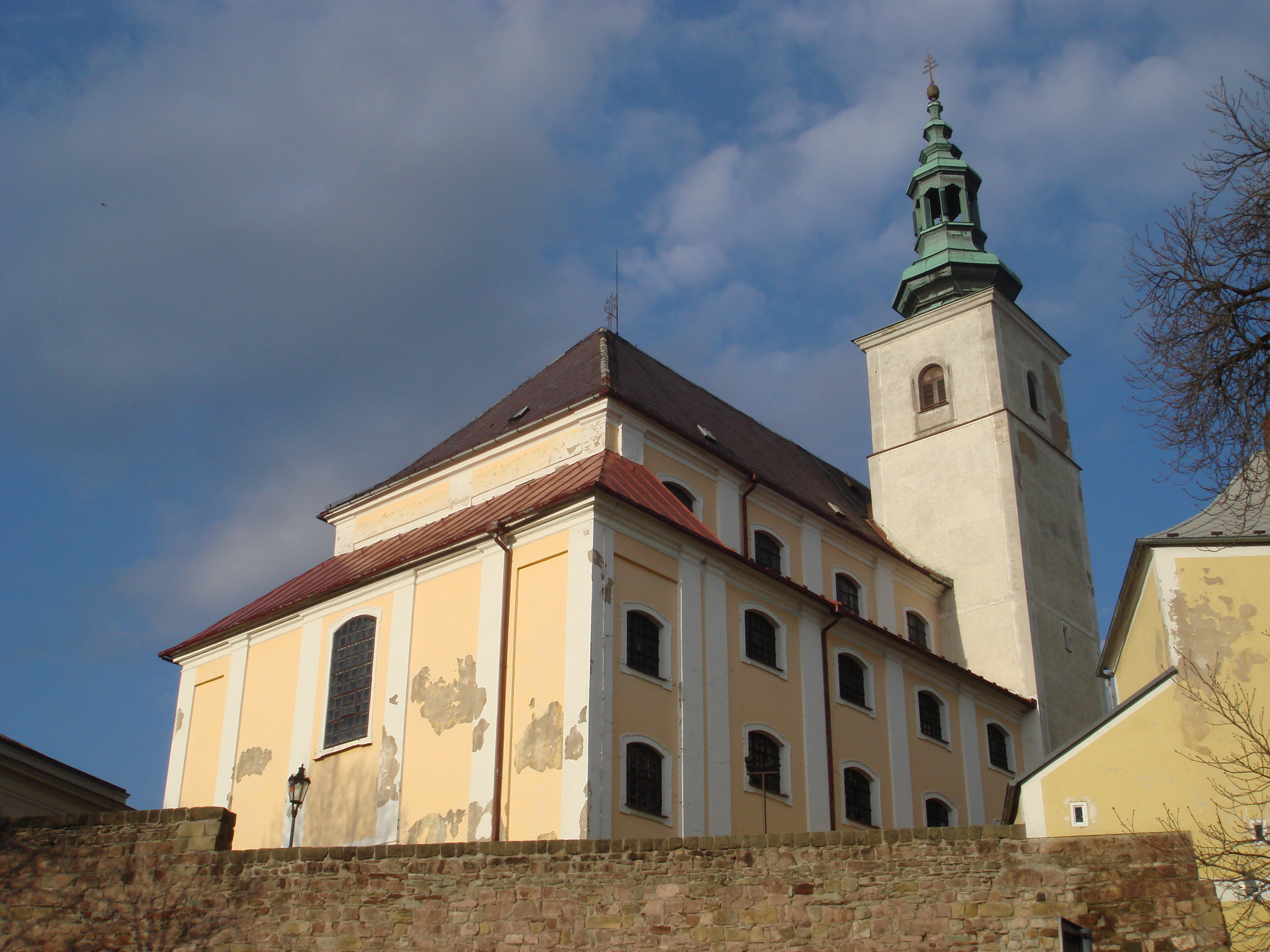 Church of Saints Peter and Paul in Broumov (Hradec Králové Region, Czech Republic).